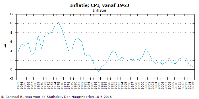 Dutch inflation percentages from 1963-2015